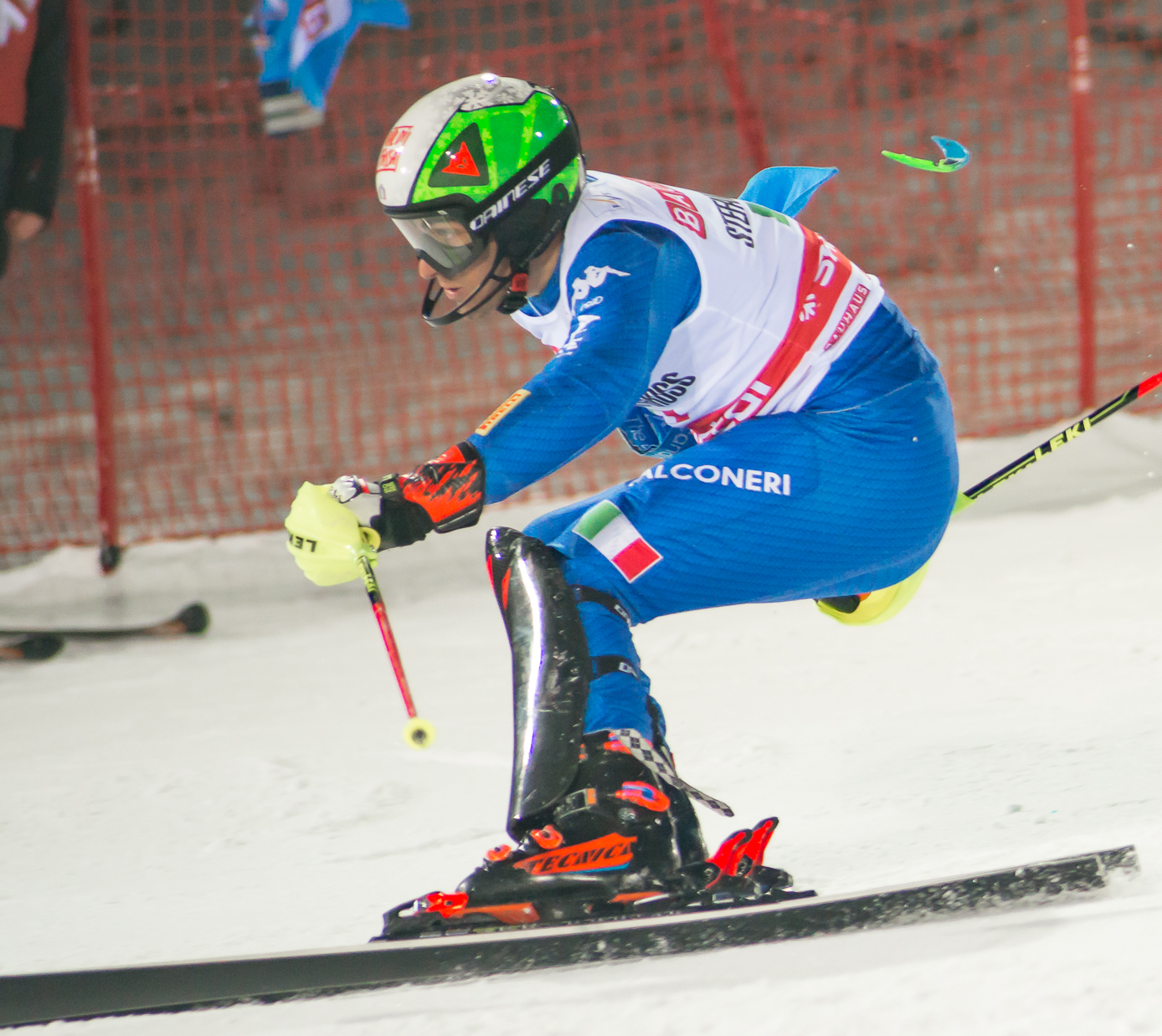 Stefano Gross in action Photo by Roland Osbeck